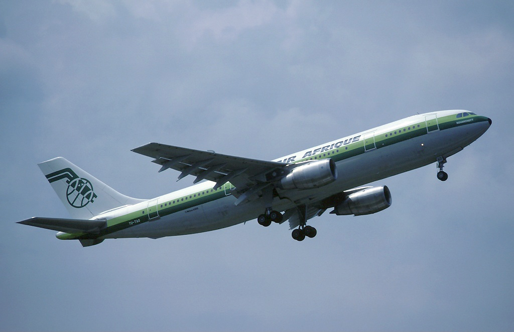 An Air Afrique Airbus A300B4-203 just departed from Geneva Airport (GVA / LSGG)